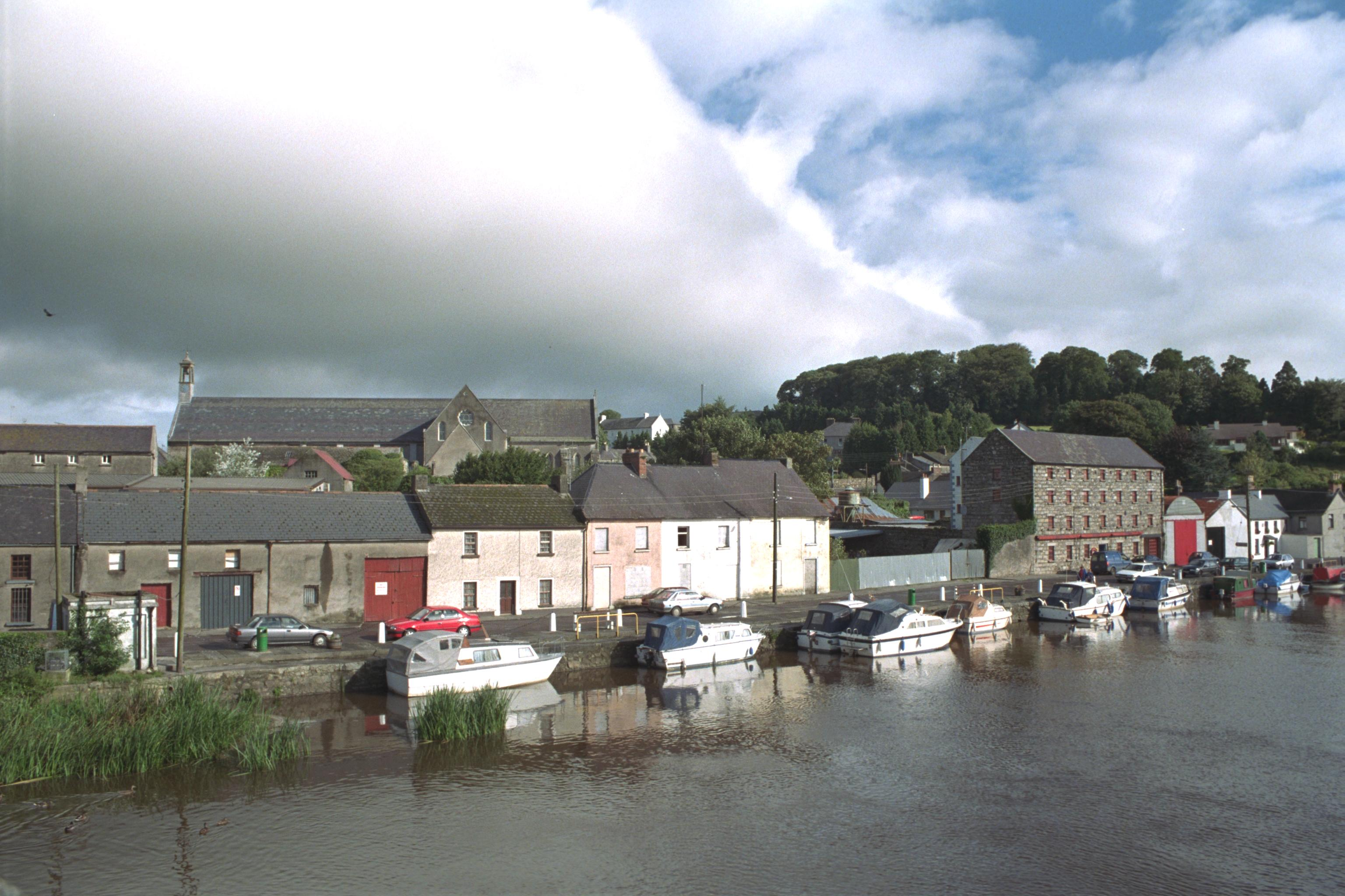 Graiguenamanach, County Kilkenny, Ireland View from River Barrow